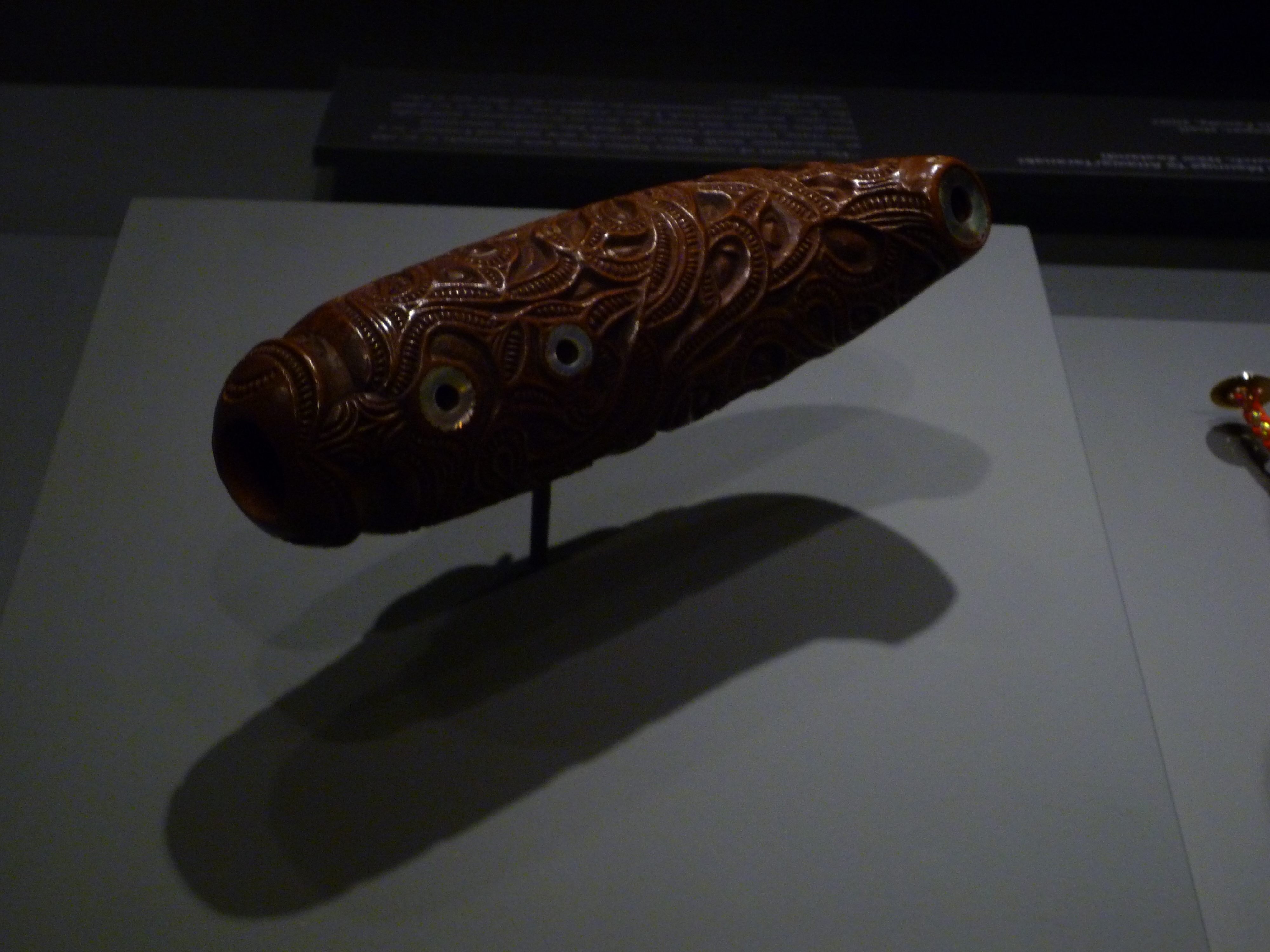 Nguru (flute). Wood, paua shell (Abalone haliotis). New Zealand.